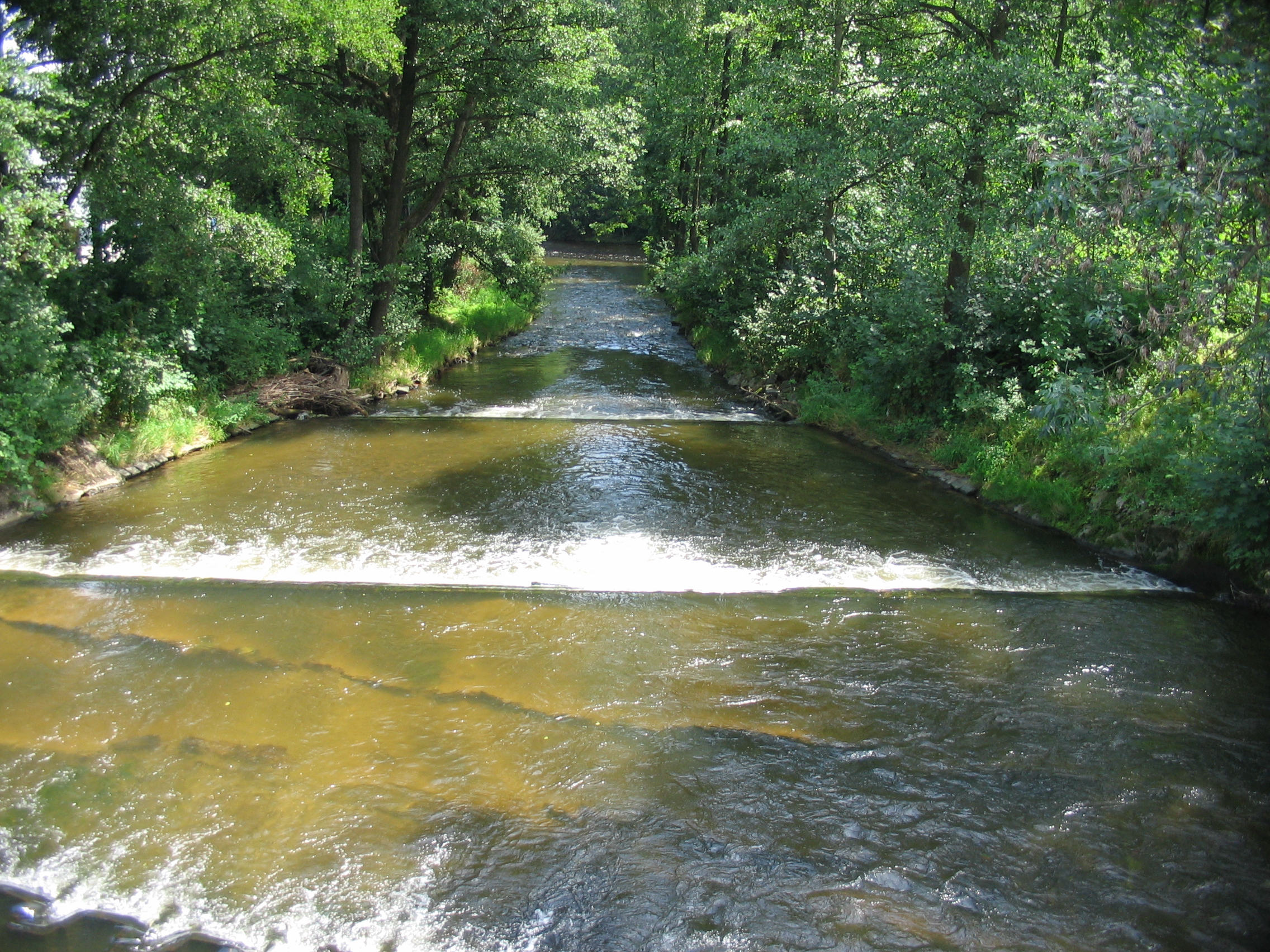 Branch of Ostružná River and its confluence with Otava River near Sušice, Klatovy District, Czech Republic